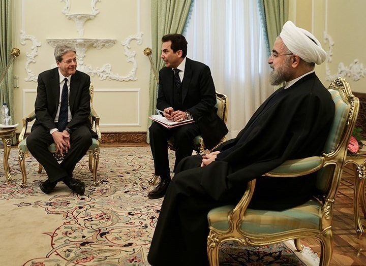 Iranian President in his officem meeting with Italian Foreign Minister Paolo Gentiloni